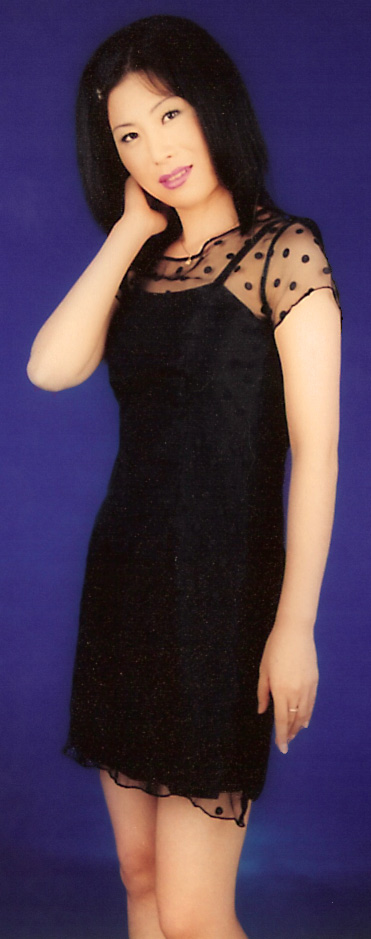 Uploaded to Flickr by Fine Rain 2006-01-08.[1] Edited by Daniel Case 2007-04-09.